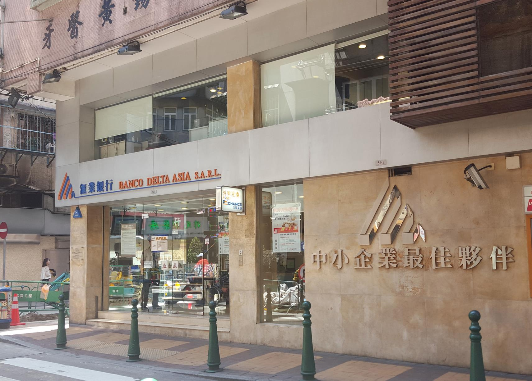 Branch of Delta Asia Bank